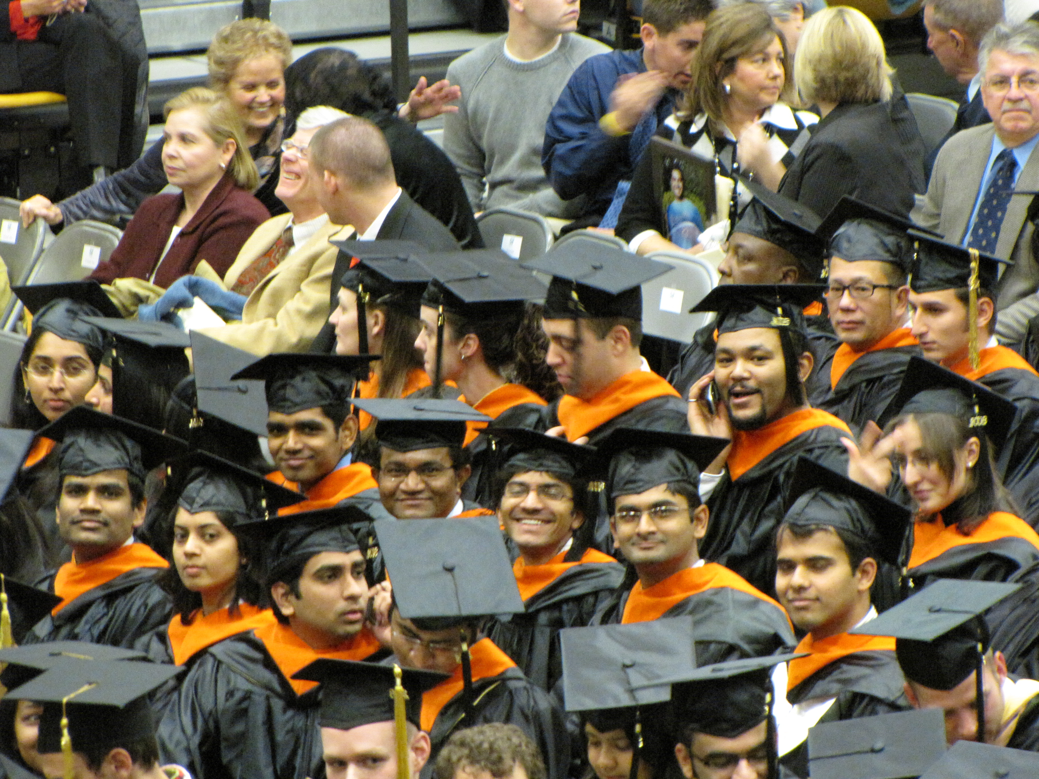 Missouri S&T Students at Fall'08 convocation